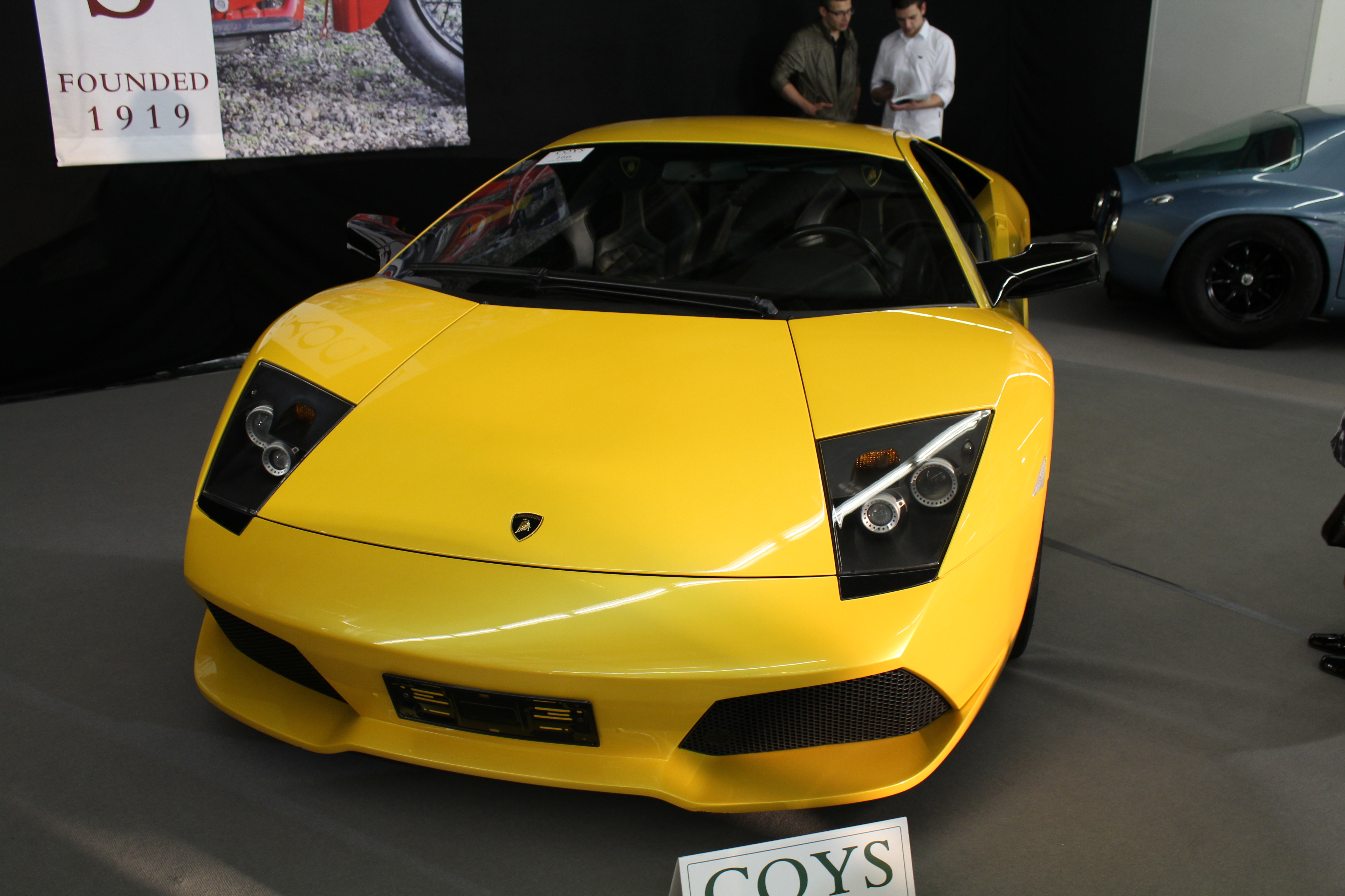 Passenger vehicles being displayed in 2015 International Motor Show Germany.